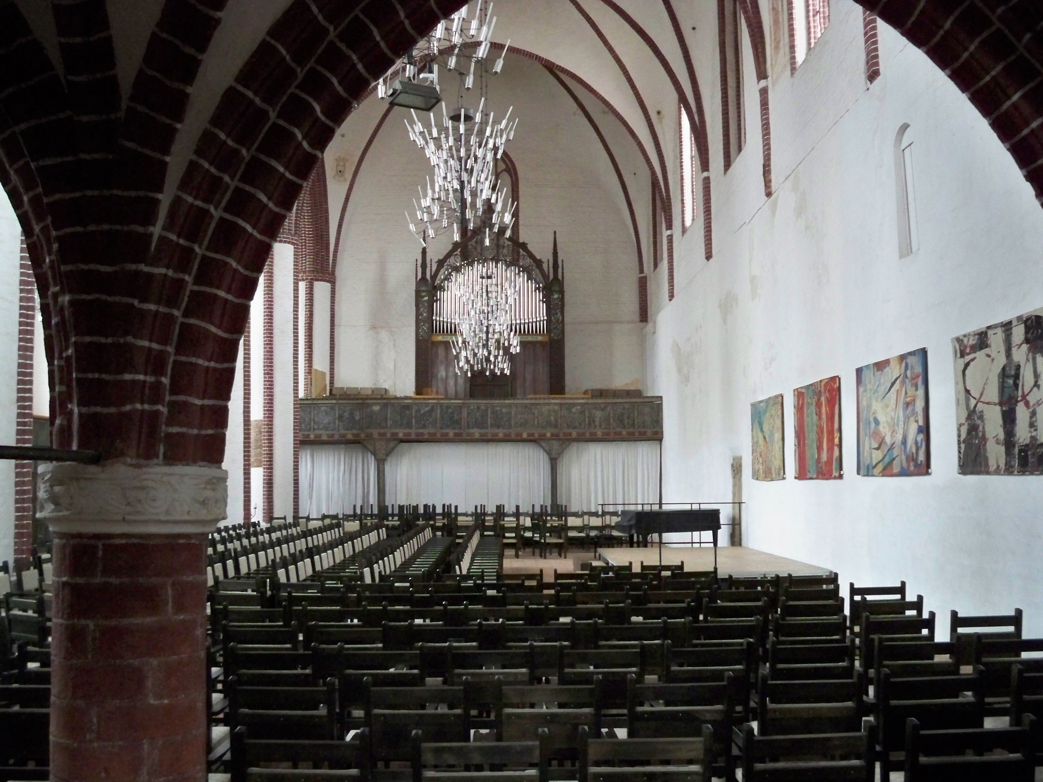 interior of Mönchskirche Salzwedel with organ